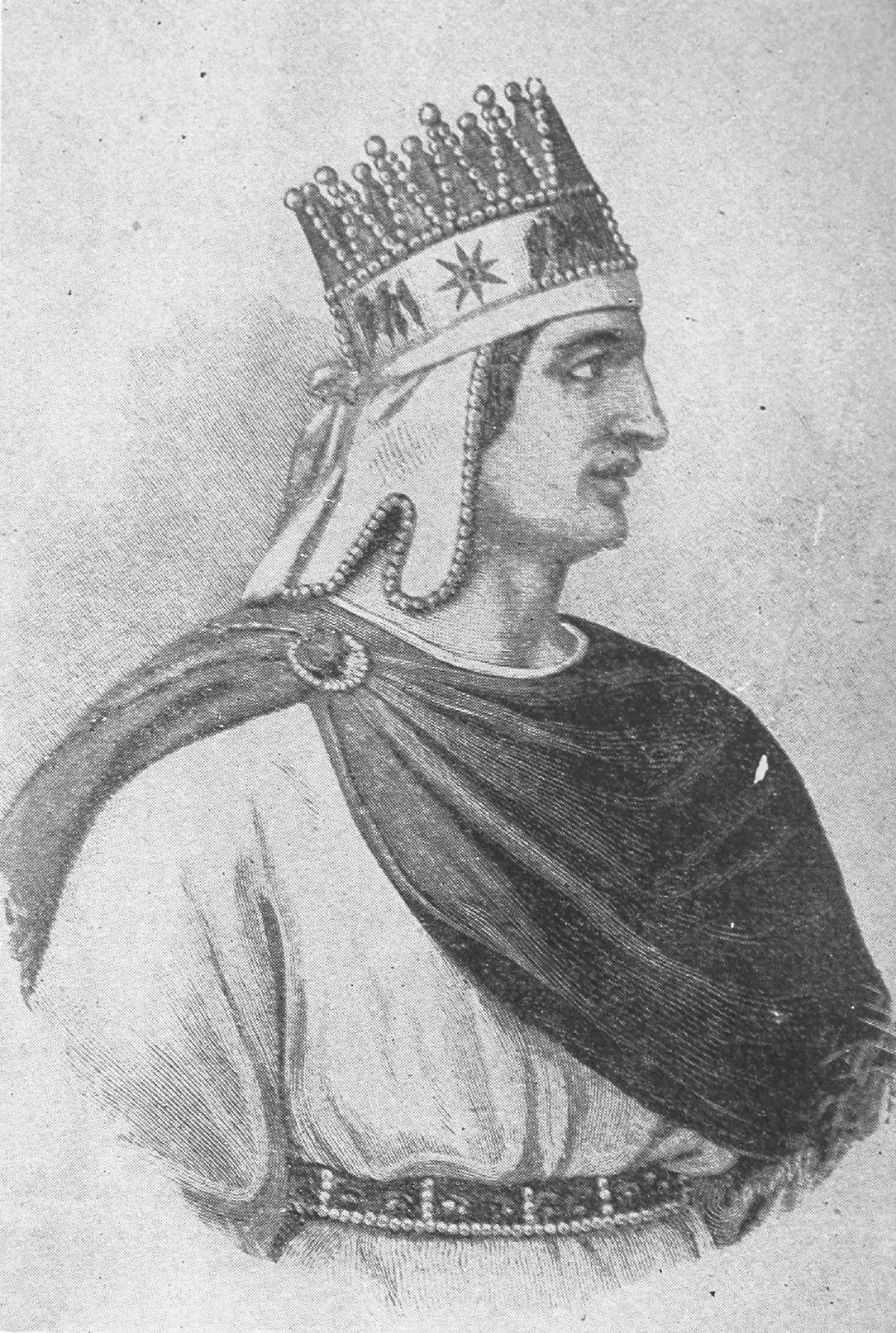 Illustration of Tigranes the Great, King of Armenia from 95 BC to 55 BC.